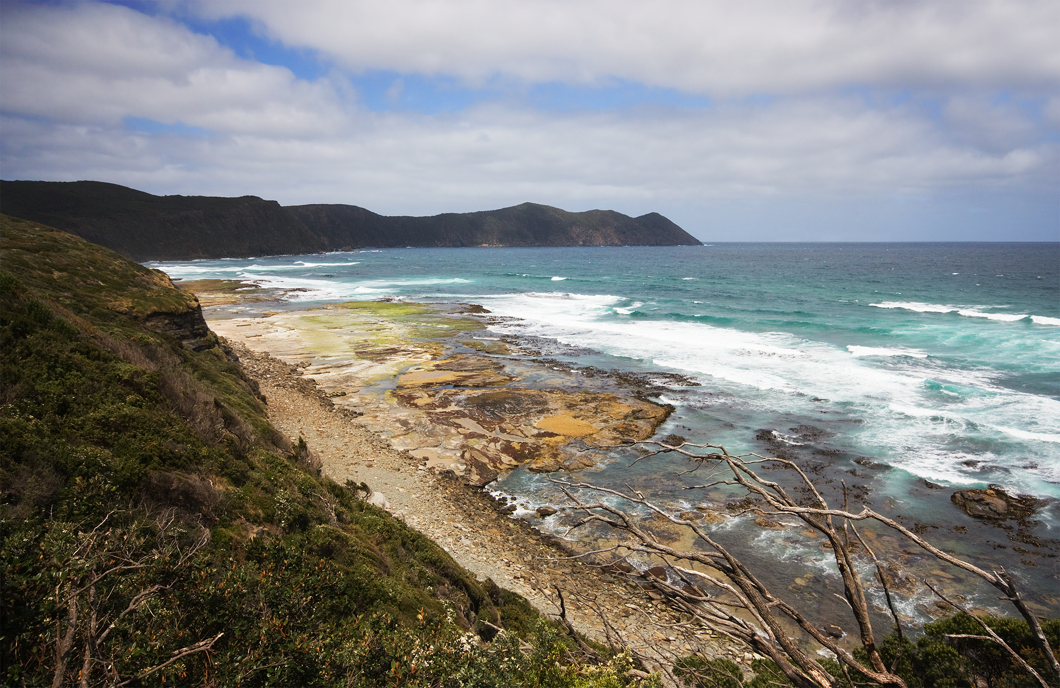 South Cape Bay, Southwest National Park, Tasmania